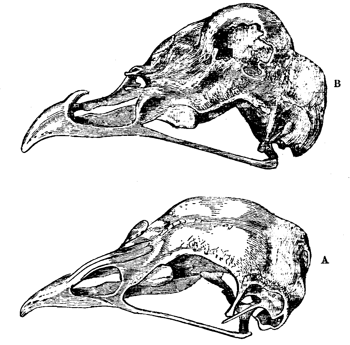 Skulls viewed from above, a little obliquely. A. Wild Gallus bankiva. B. White-crested Polish Cock.